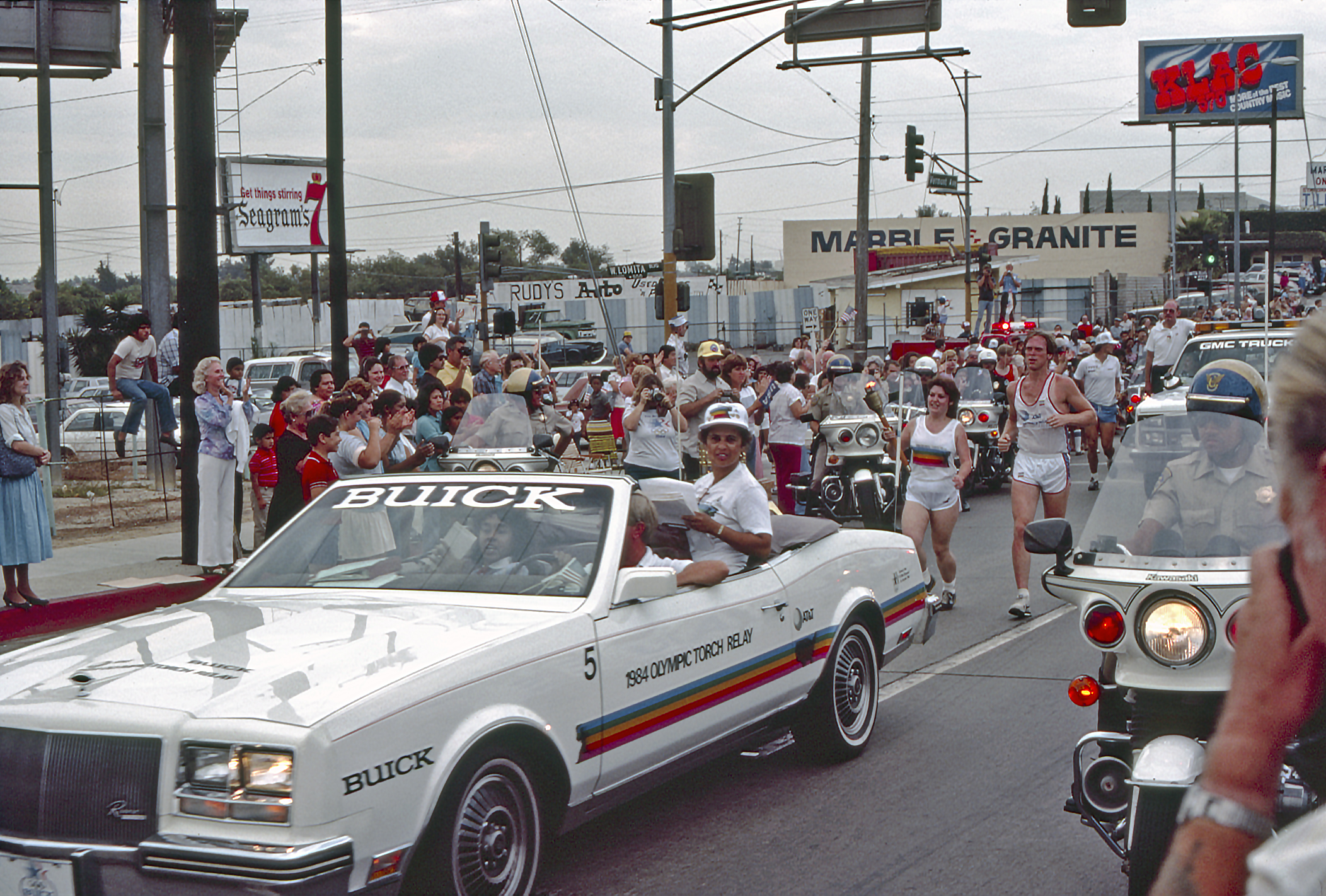 Torch runners are northbound on Vermont Ave., having just crossed Lomita Ave. The next day will be the start of opening ceremonies when the torch enters the Los Angeles Coliseum.